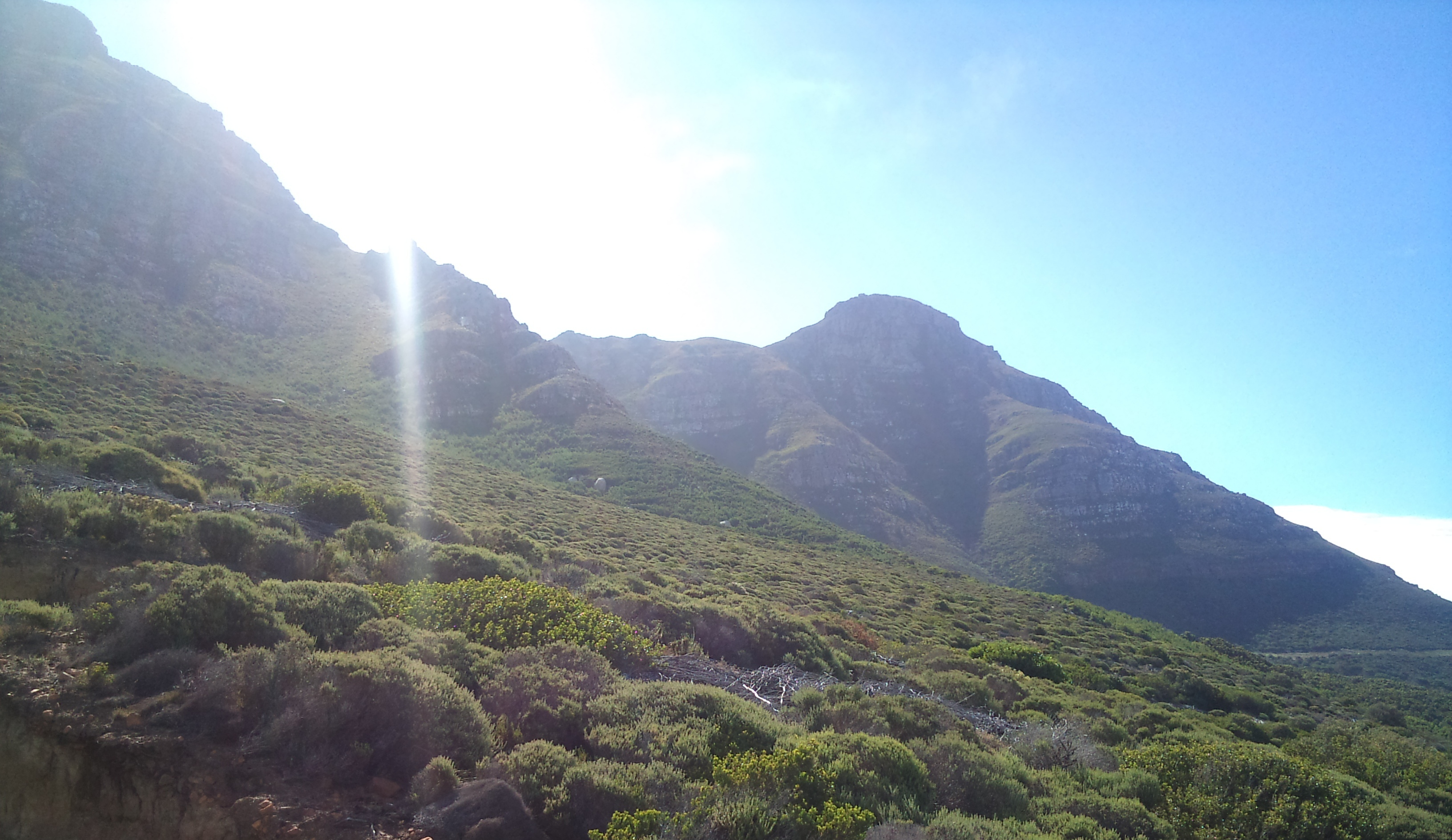 View of mountainside at Millers Point. Cape Peninsula Sandstone Fynbos.